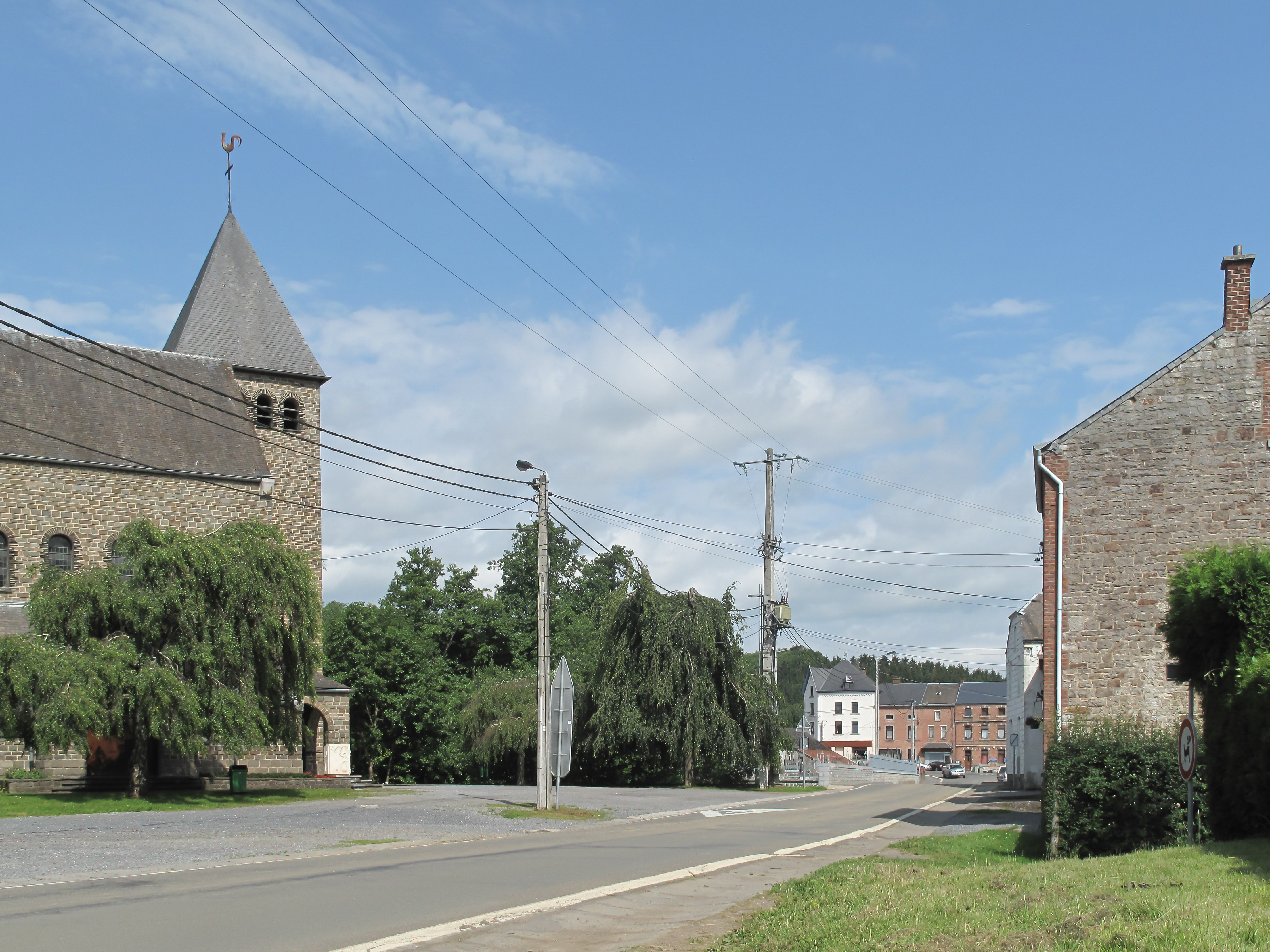 Forrières, church in the street